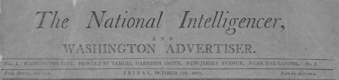 top header from the October 31, 1800 issue of the paper